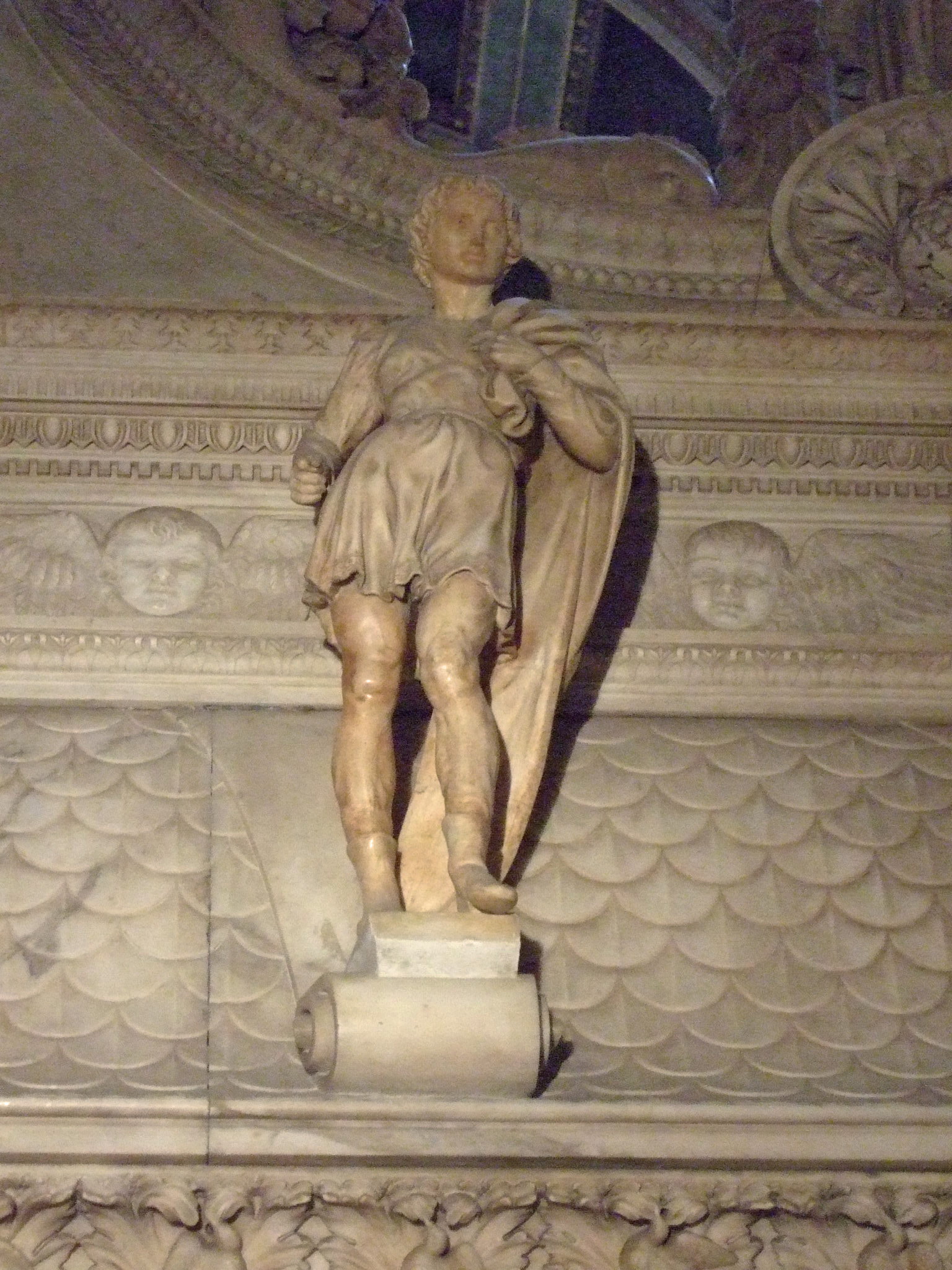 St. Proculus (1494) by Michelangelo on the Shrine of Saint Dominic, Basilica of Saint Dominic, Bologna, Italy